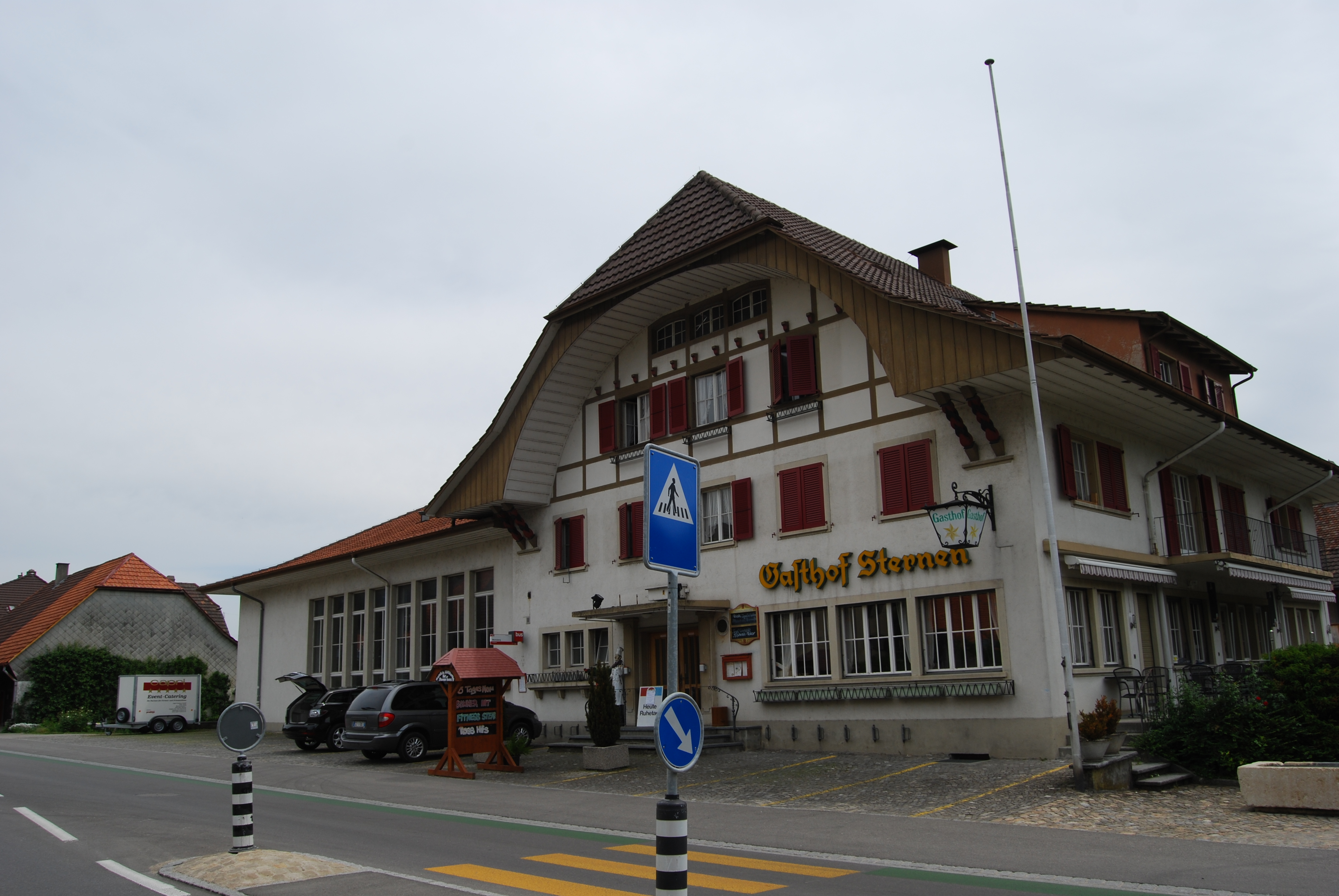 Restaurant Sternen, Safnern, canton of Bern, Switzerland